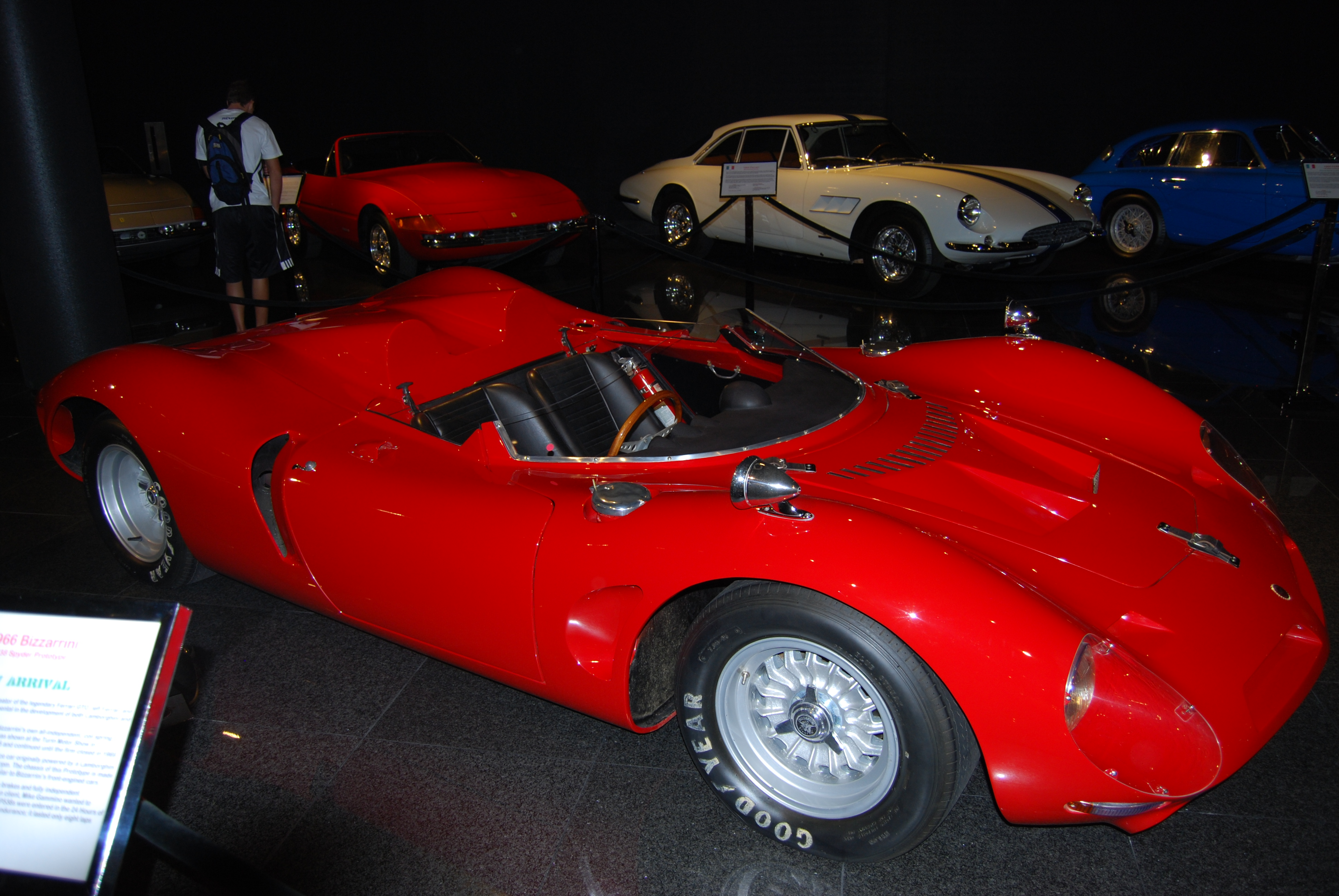 1966 Bizzarrini P538 (chassis #001), with Lamborghini 4 litre V12 engine installed on request by Mike Gammino, the first owner of this car. Sources: and - No points for guessing its Italian, or from the 1960s. Look at those beautiful wheels! Mr. Bizzarrini had connections with both the Iso Rivolta and Lambroghini concerns, after he left Ferrari. B_DSC_0663